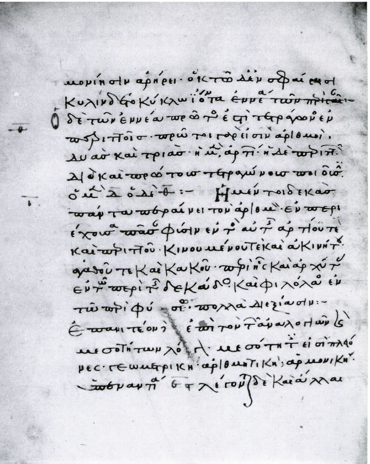 Theon of Smyrna, Expositio rerum mathematicarum utilium ad Platonem legendum in a manuscript from the library of Cardinal Bessarion. Manuscript Venice, Biblioteca Nazionale Marciana, Gr. 307, fol. 98v.